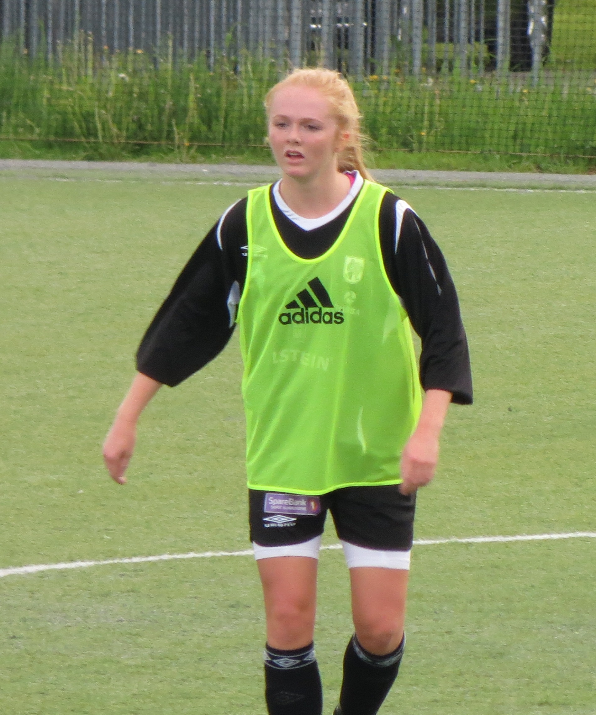 Image from Nadderud football field, Bærum, Norway. Match between STabæk J19 and Hødd J19, June 5, 2013.